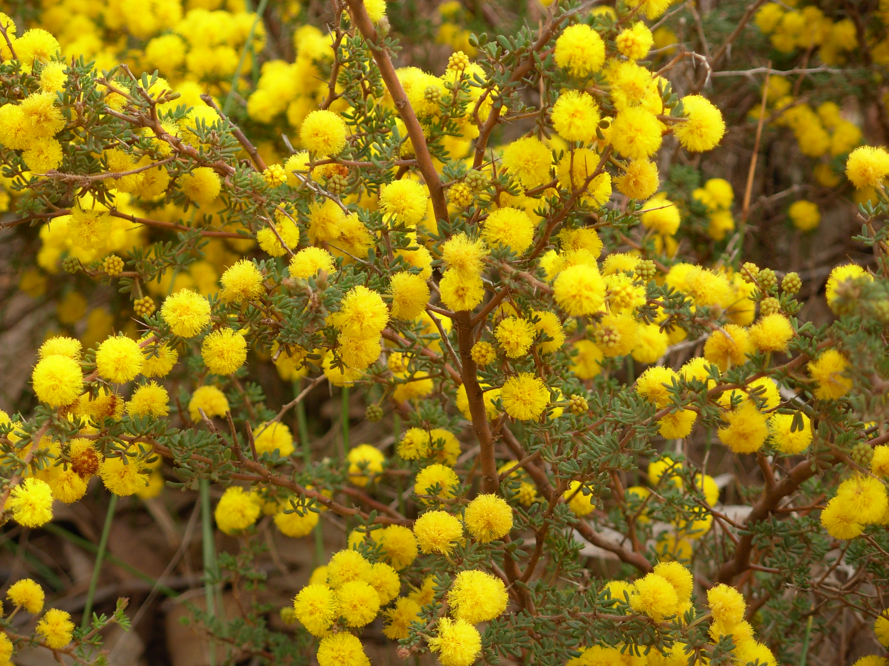 Acacia lasiocarpa Photo taken 28th August wheatbelt photo trip